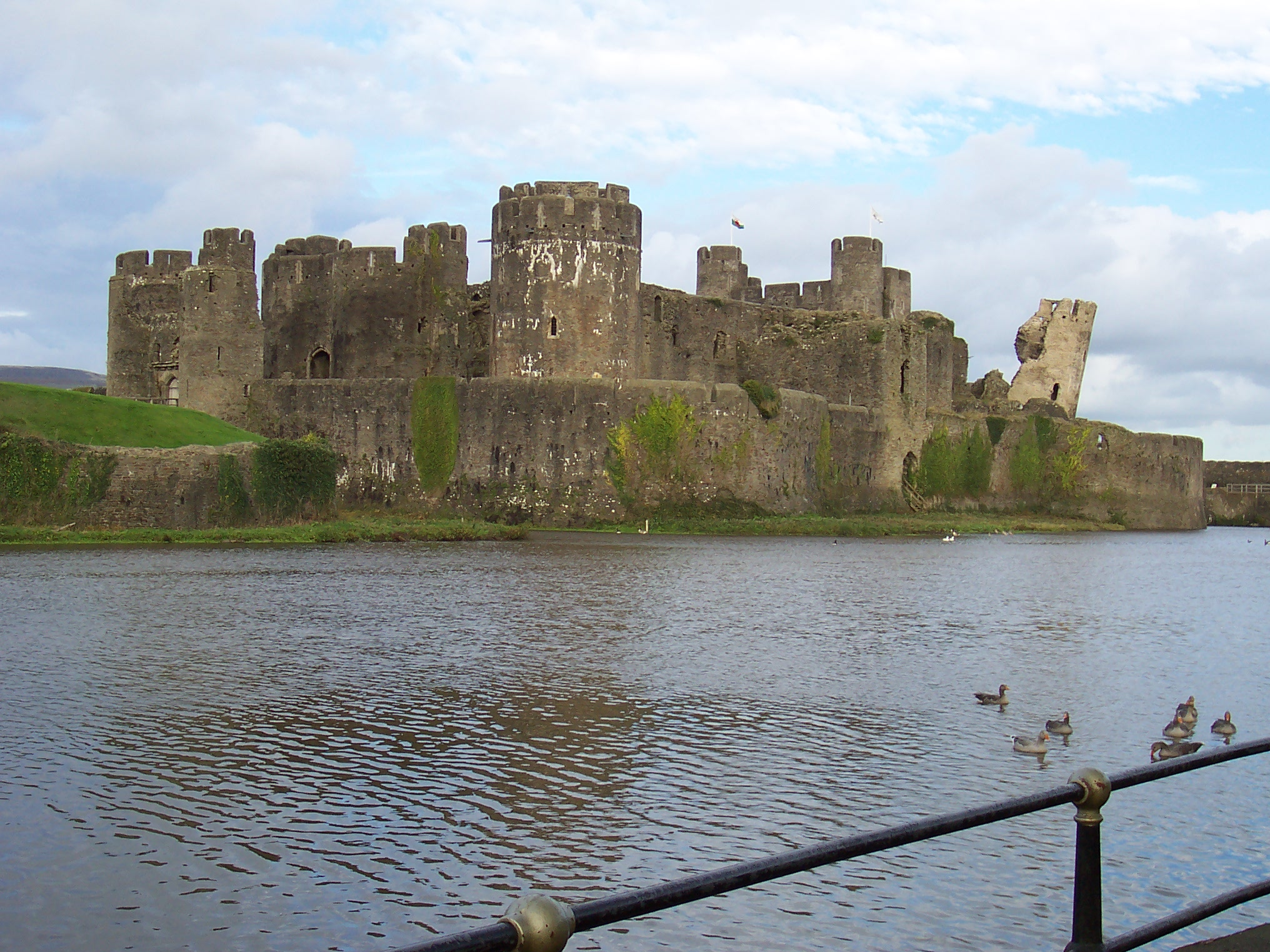 Took this picture of Caerphilly castle in November 2005. Shows decay of tower clearly, and general shape.